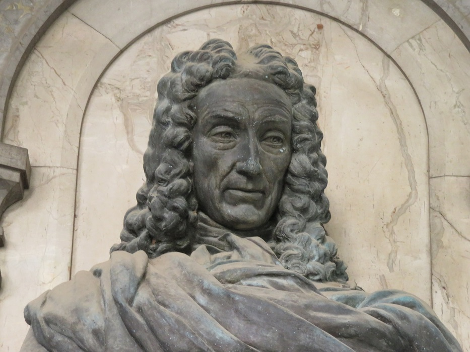 Giacomo Serpotta, Italian sculptor. By Antonio Ugo